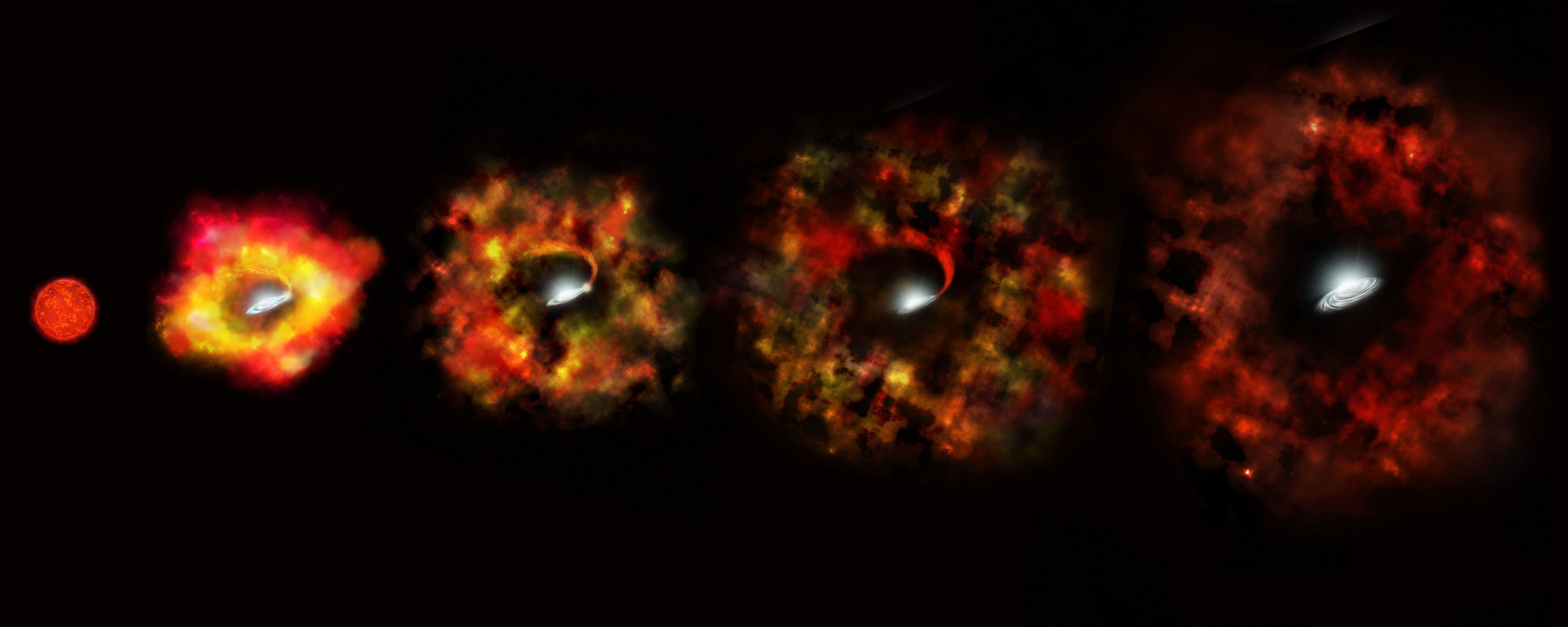 This artist’s impression shows the final stages in the life of a supermassive star that fails to explode as a supernova but instead implodes under gravity to form a black hole. From left to right: the massive star has evolved to a red supergiant, the envelope of the star is ejected and expands, producing a cold, red transient source surrounding the newly formed black hole. Some residual material may fall onto the black hole, as illustrated by the stream and the disc, potentially powering some optical and infrared emissions years after the collapse.